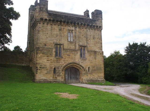 The gatehouse of Morpeth Castle - the only intact remnants of what began life as a motte-and-bailey fortification. Morpeth Castle is a Scheduled Ancient Monument and a Grade I listed building at Morpeth, Northumberland, in northeast England.